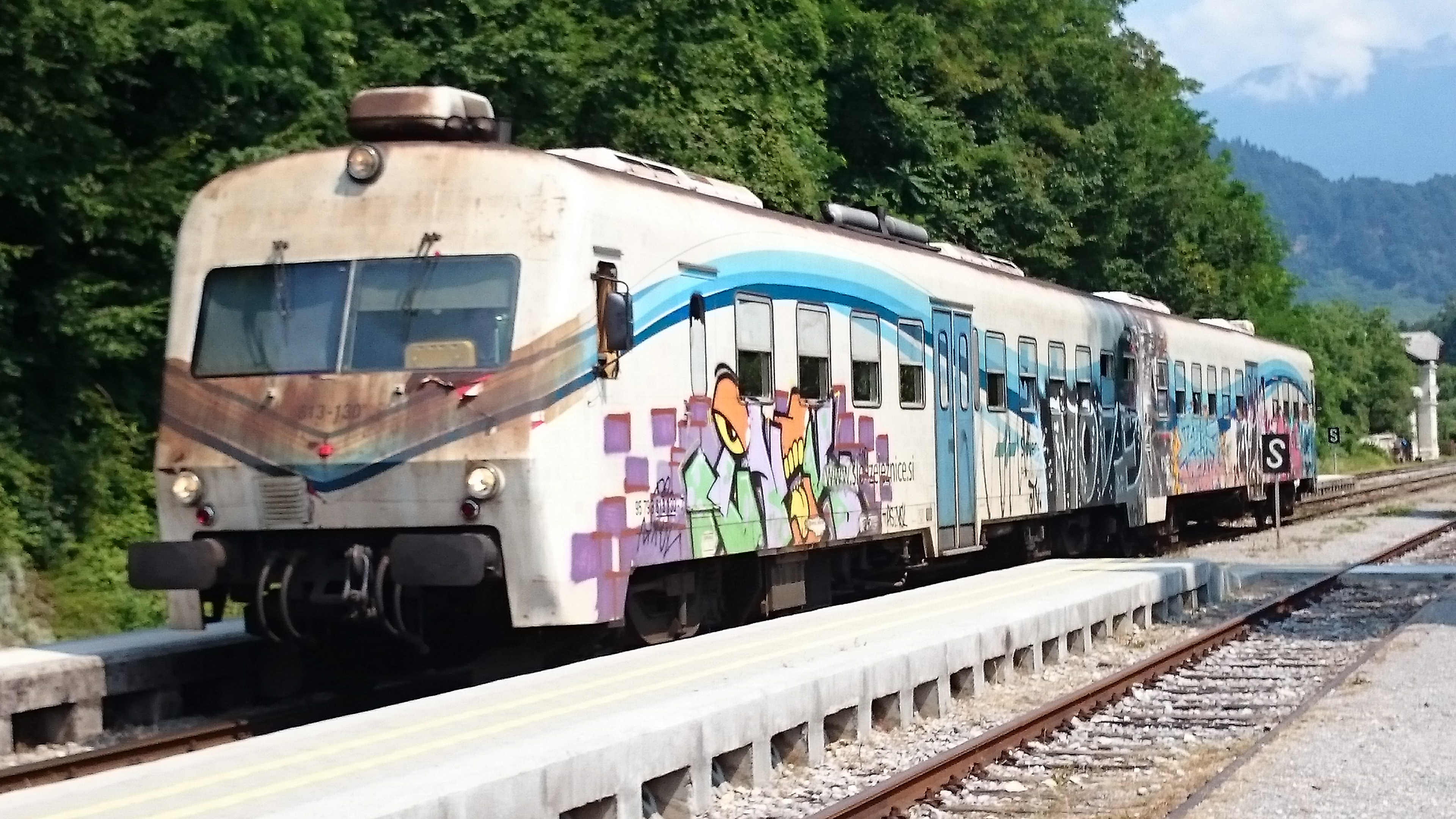 SŽ 813 DMU at Bled Jezero station